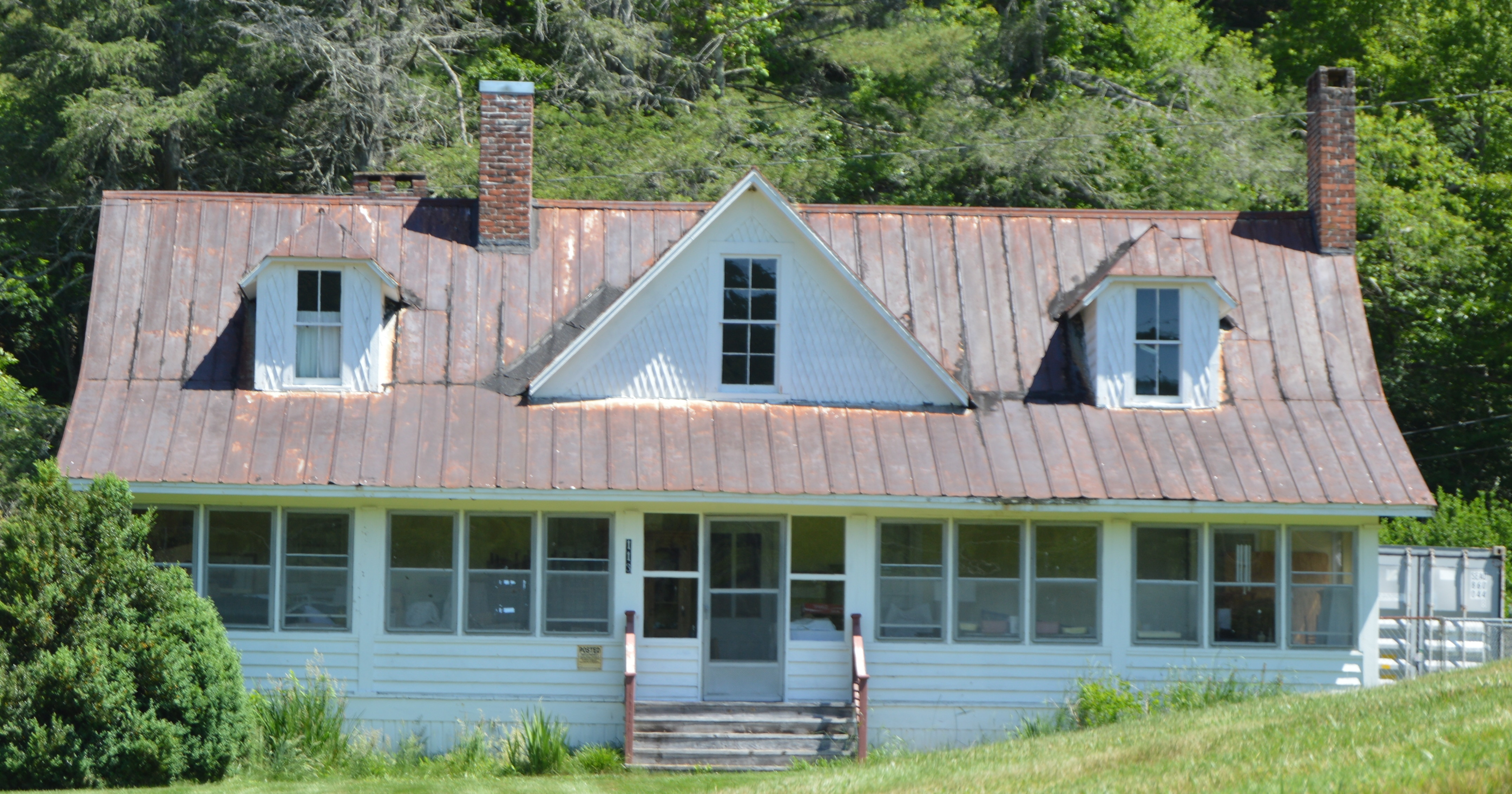 Front of the Blair Farmhouse, located on Blairmont Drive just north of Deerfield Road in Boone, North Carolina, United States. Built in 1844, it is listed on the National Register of Historic Places.